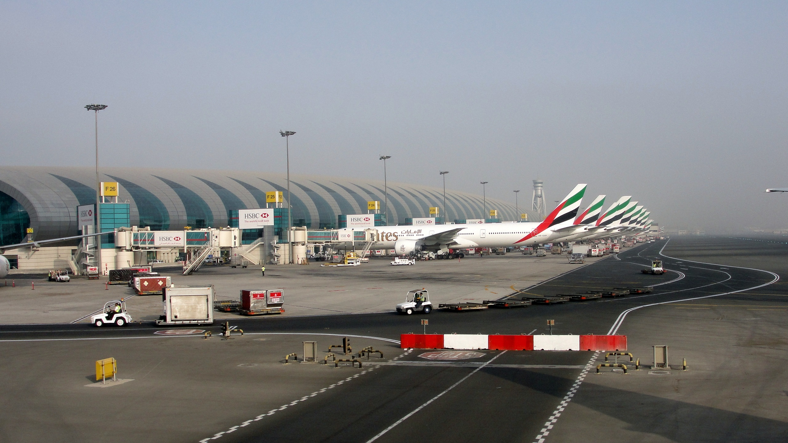 Dubai International Airport Terminal three viewed from a taxing aircraft